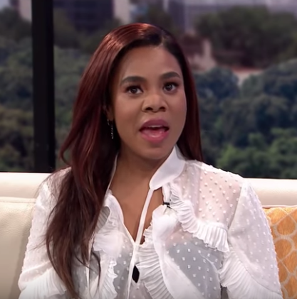 Regina Hall interviewed in 2019